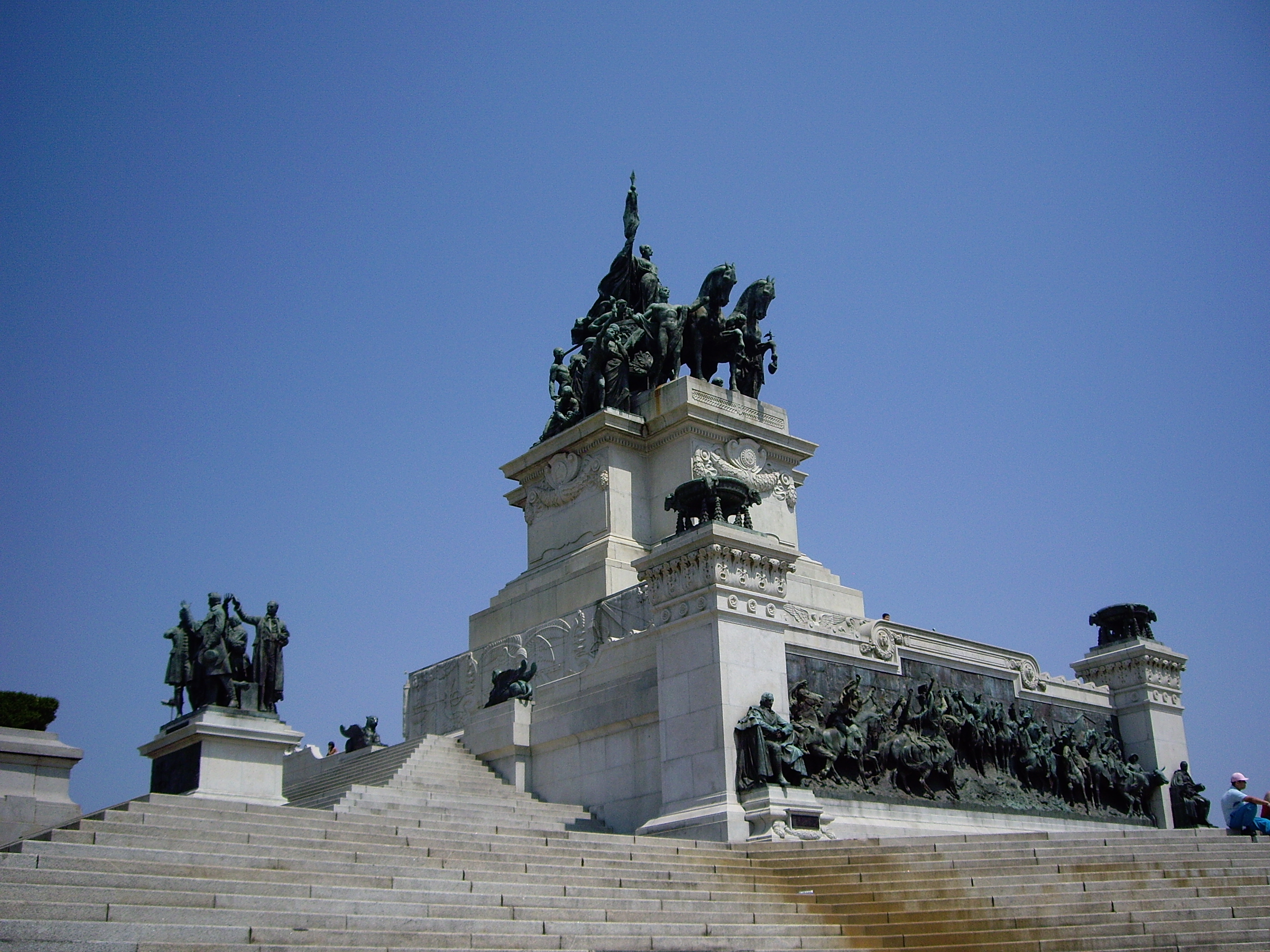 Monument of the Independence of Brazil. Built in the margin of the Ipiranga creek to custody the mortal remains Pedro I of Brazil.